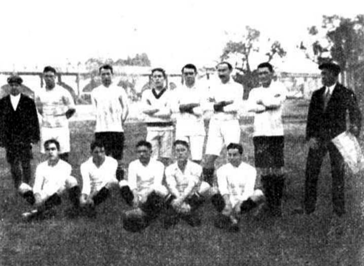 Team of Argentina that beat Uruguay in the Copa Centenario